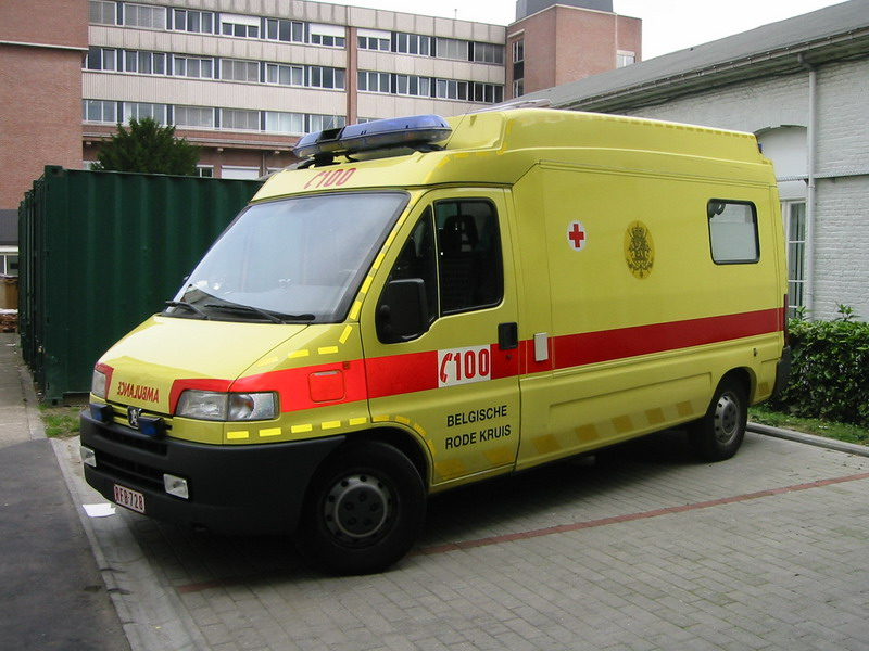 Peugeot Boxer ambulance in Belgium, with "AMBULANCE" in mirror writing ("ECNALUBMA").